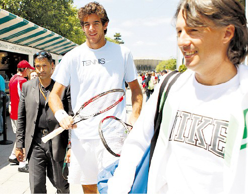 davin-del potro